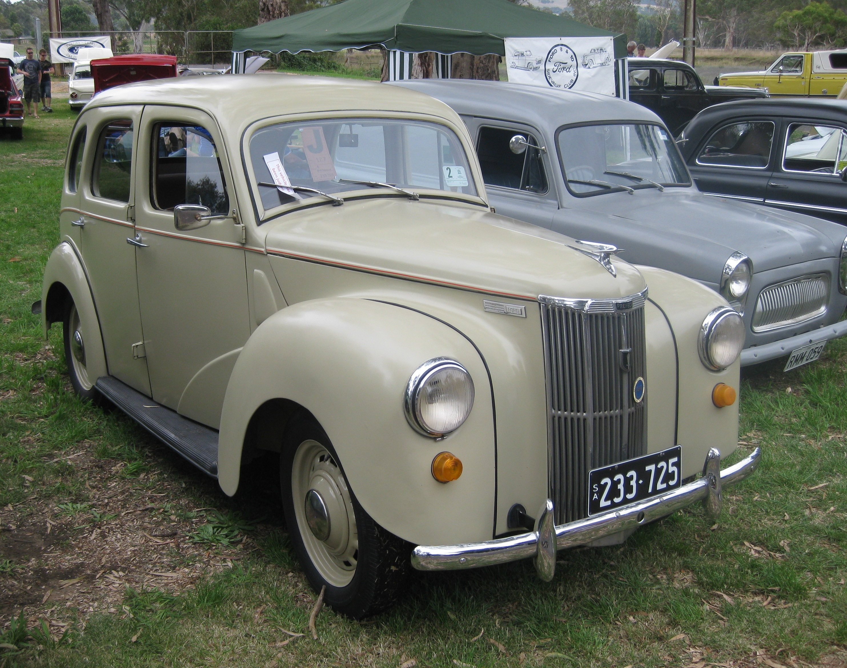 Ford A493A Prefect, photographed in South Australia. Ford Australia produced the A493A Prefect Sedan in Australia from 1949 to 1954, selling the local model alongside the English bodied E493A Sedan. The body of the Australian sedan differed from that of the English variant in having an extended boot and a steel roof rather than a fabric centred roof. The A493A Prefect was also produced by Ford Australia as a coupe utility.